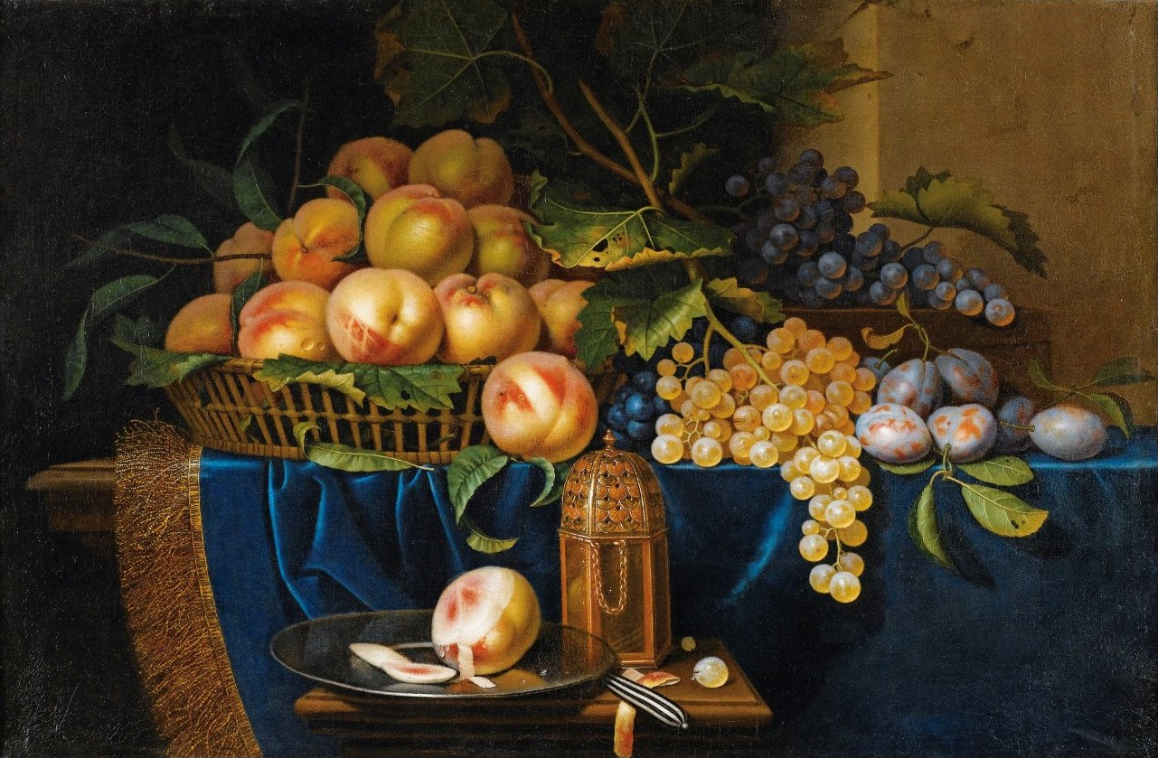 Still Life With Peaches, Grapes, Plums and Silver-Gilt Shaker by Paul Liégeois, oil on canvas, 61 x 92.5 cm.